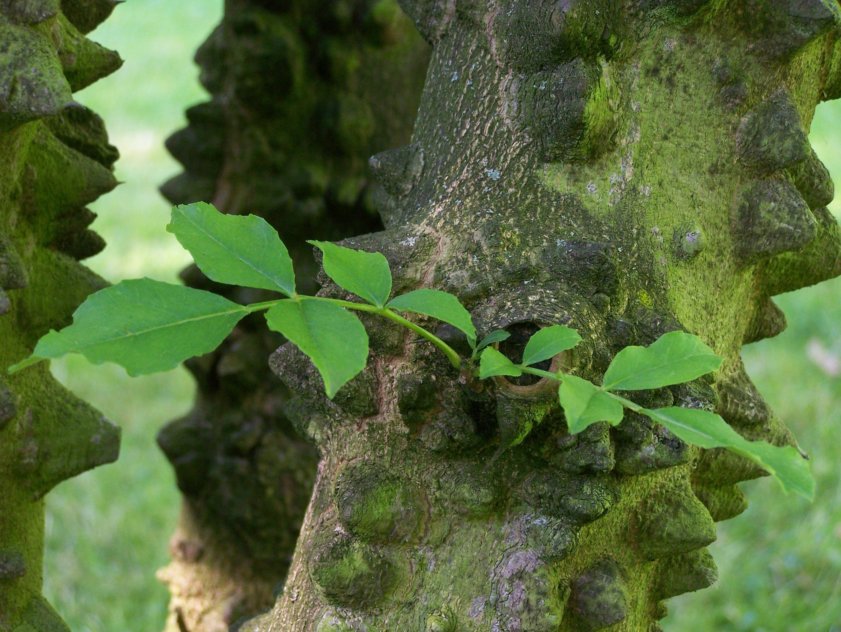 Species: Zanthoxylum simulans Hance in Ann. Bot. Ser. 5(5): 208. 1866. illustration Common names: Chinese Prickly-ash, Flatspine Prickly-ash. Distribution range: Northern an central China.